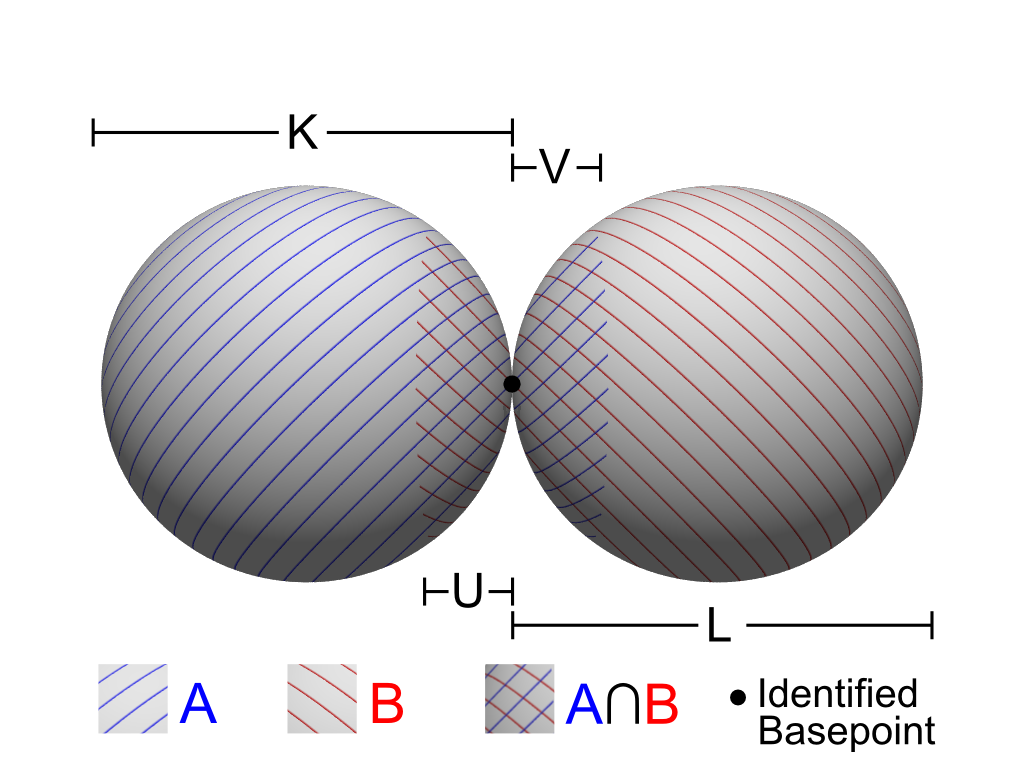 A wedge sum of two spheres with a cover appropriate to apply the Mayer-Vietoris sequence to calculate its homology groups.